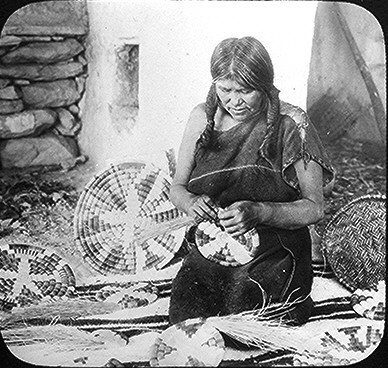 Hopi woman weaving a basket. Photographed by Henry Peabody, ca. 1900. American Indian Select List number 12.